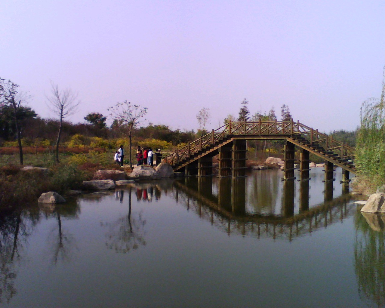 Mihe Park has a lot of bridges and they are all different.